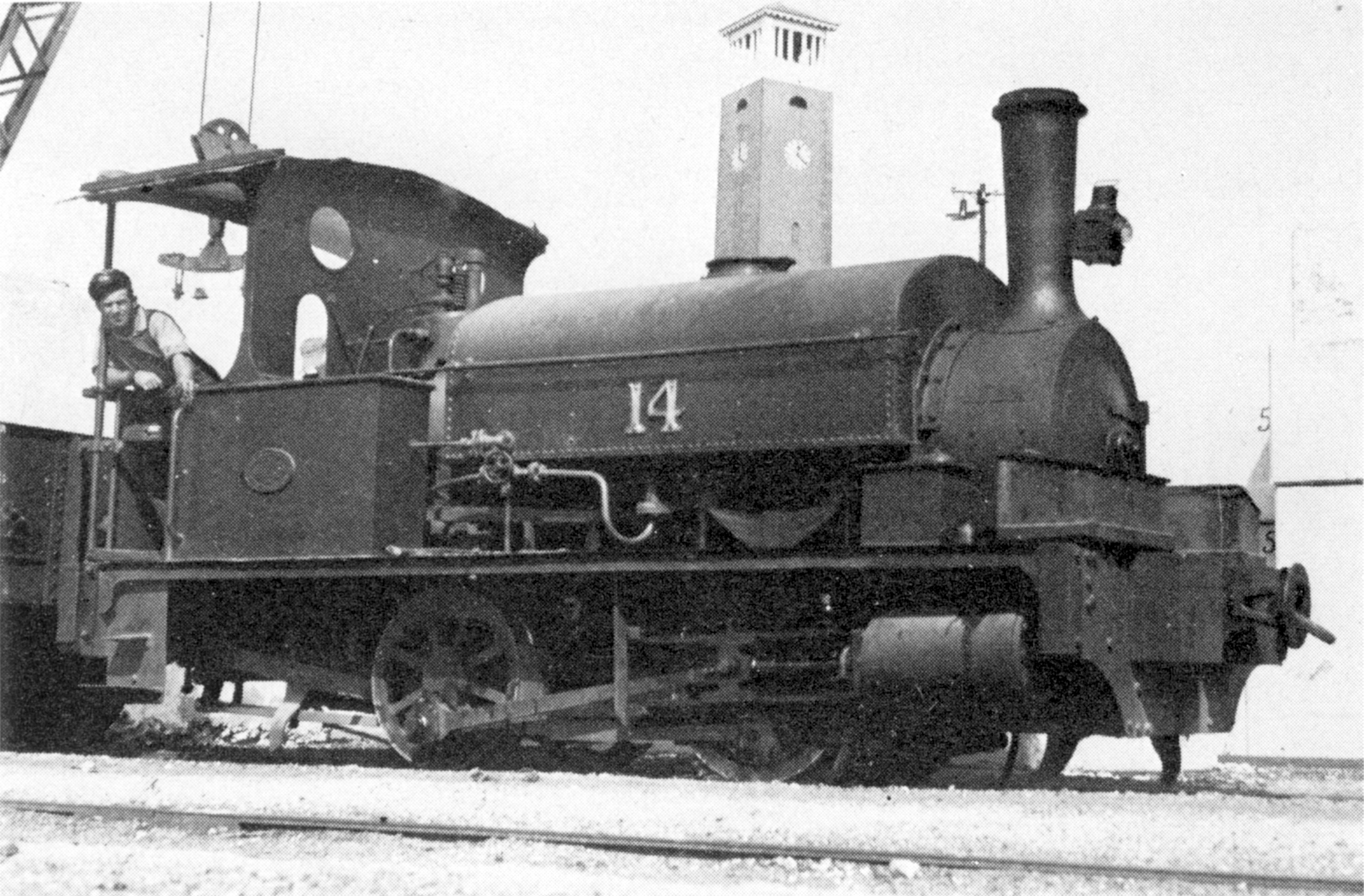 Table Bay Harbour Board 0-4-0ST no. 14 of 1898